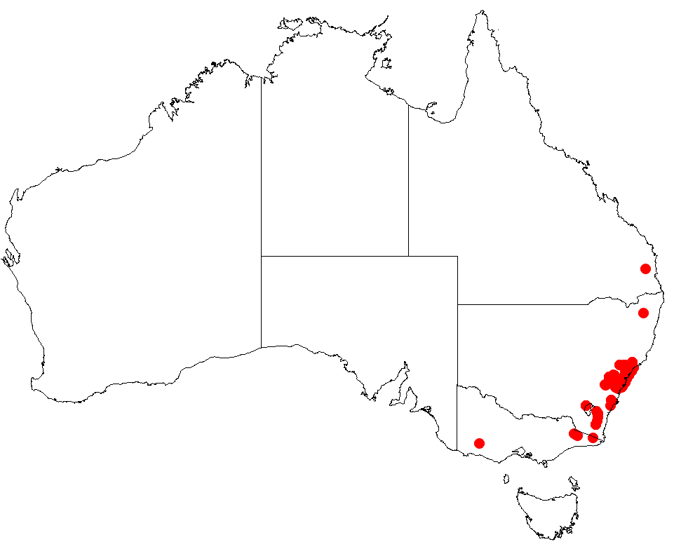 Acrotriche divaricata Occurrence data from Australasian Virtual Herbarium downloaded 23 November 2018 using